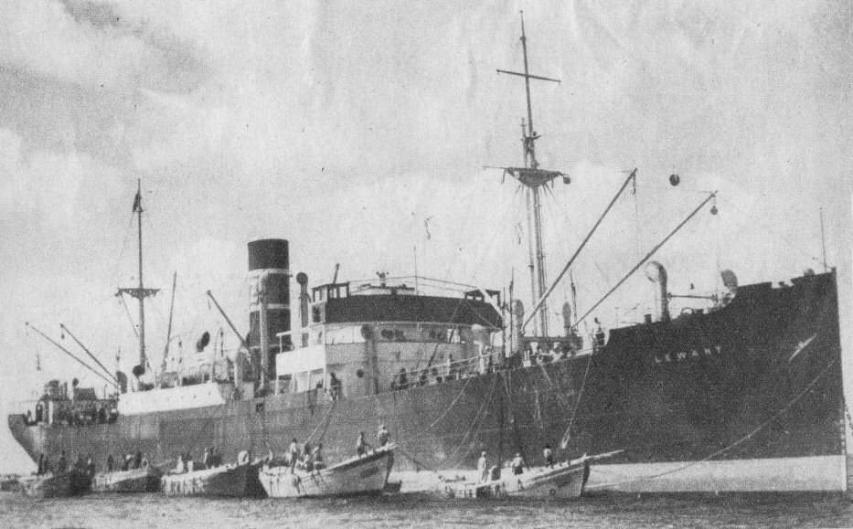 Polish freighter MS Lewant